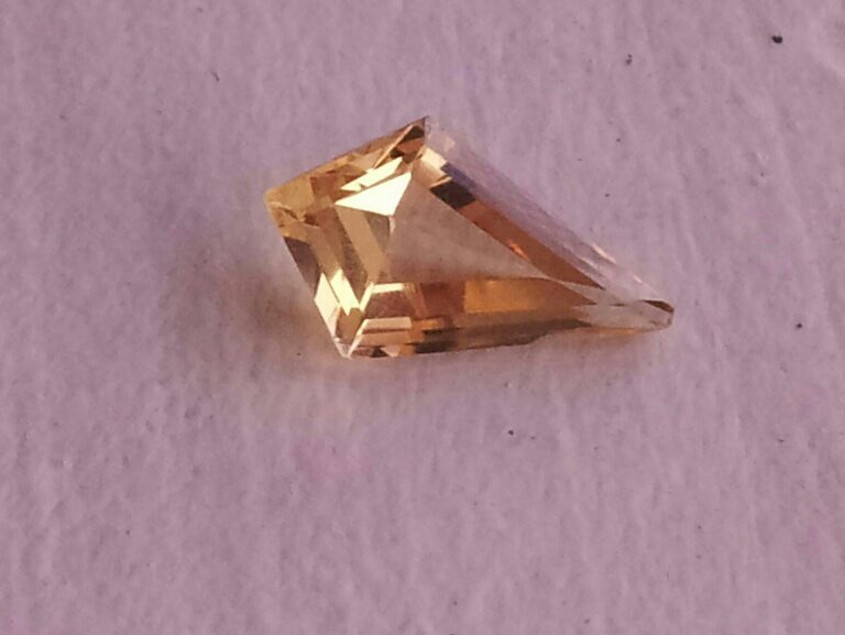 Yellow topaz in kite-shaped step cut. This replaces a previously submitted image that wasn't as good.